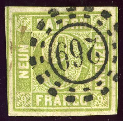 Kingdom of Bavaria stamp, 9 kreuzer issue 1851, Michel 5c, open millwheel cancelled 269 LANDSHUT.